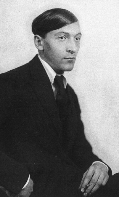 Amédé Barth (Amadeus) (1899–1926) Maler, Zeichner